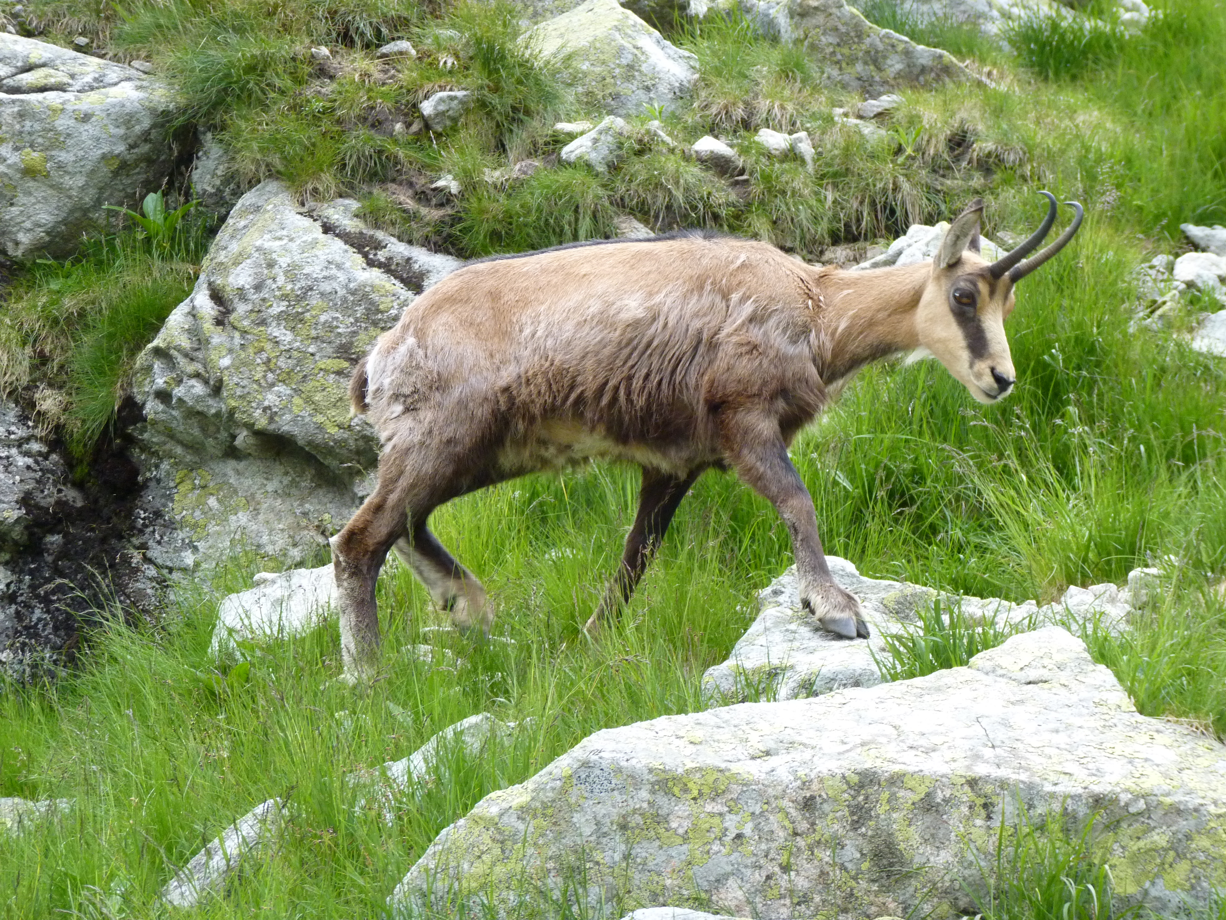 Dolina Bielej vody - path from "Zelene pleso" to "Jahnaci stit", High Tatras, Slovakia